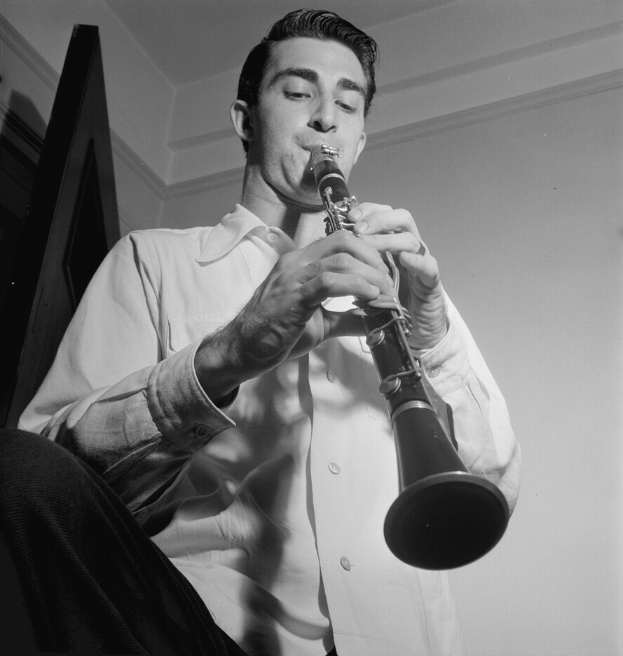 Buddy De Franco, New York